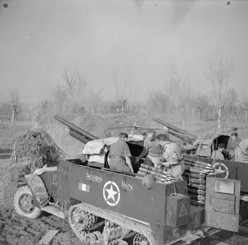 The British Army in Italy 1945 'Acorn Inn', a self-propelled 75mm gun M3 half-track of 27th Lancers, north-west of Mezzano, 18 February 1945.